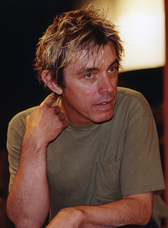 An image of Tom Petterson in Chicago, Illinois